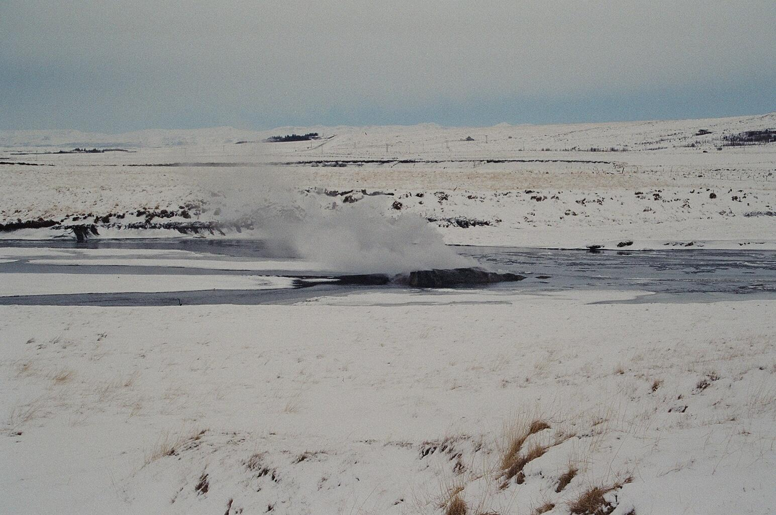 The photo shows the hot spring Árhver in the river Reykjadalsá in the west of Iceland. Photo taken by my-self in january 2005.